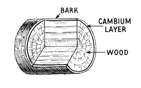 line art drawing of cambium.